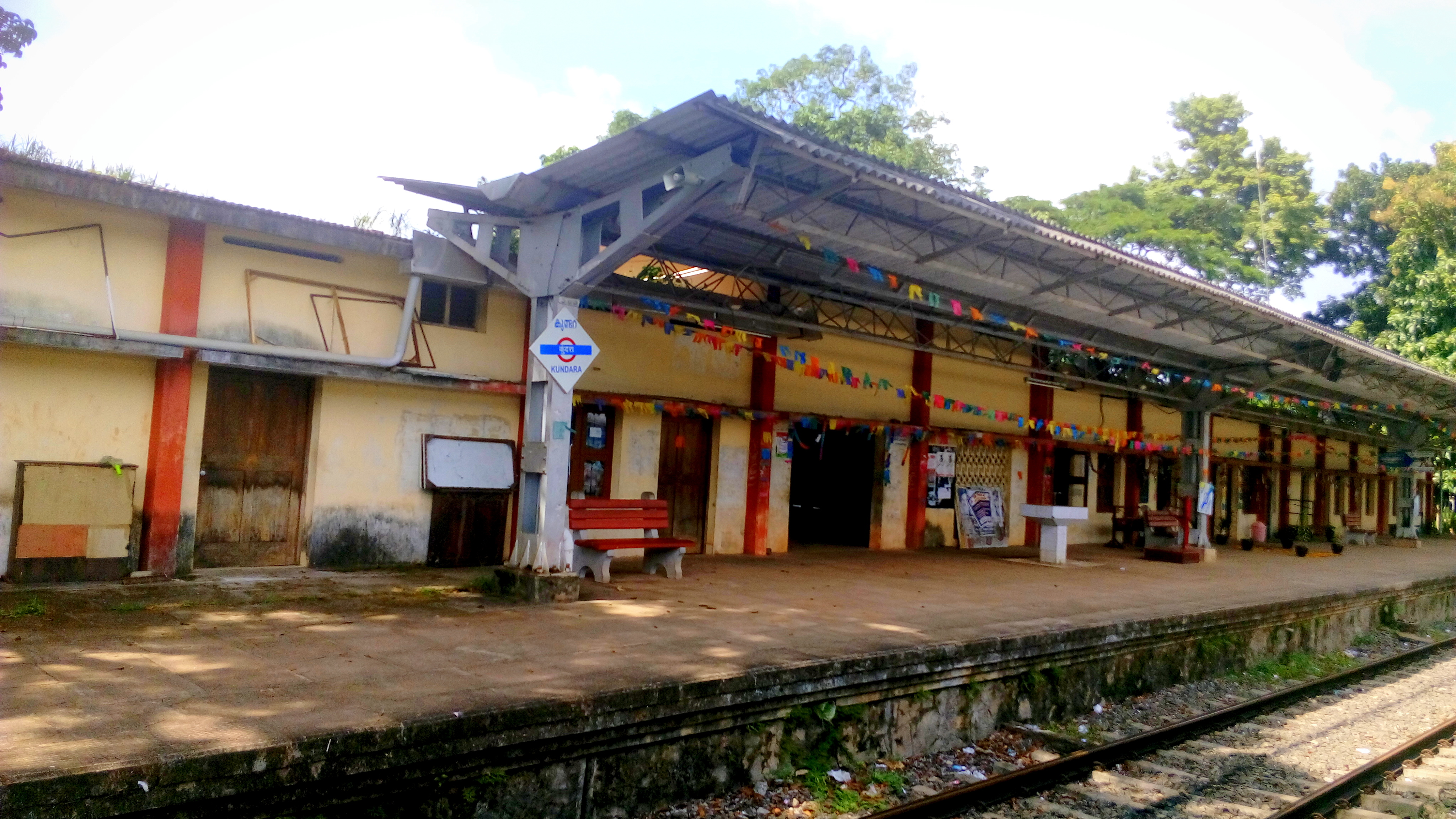 Kundara railway station is situated at the industrial town of Kundara in Kollam district, India